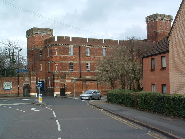 The Barracks Bury St.Edmunds. The barracks Risbygate Street Bury St.Edmunds Suffolk as the building would have looked many years ago. The old photo is taken from The Spanton Jarman Collection The building now houses a army careers office and regimental museum For another view see 346966